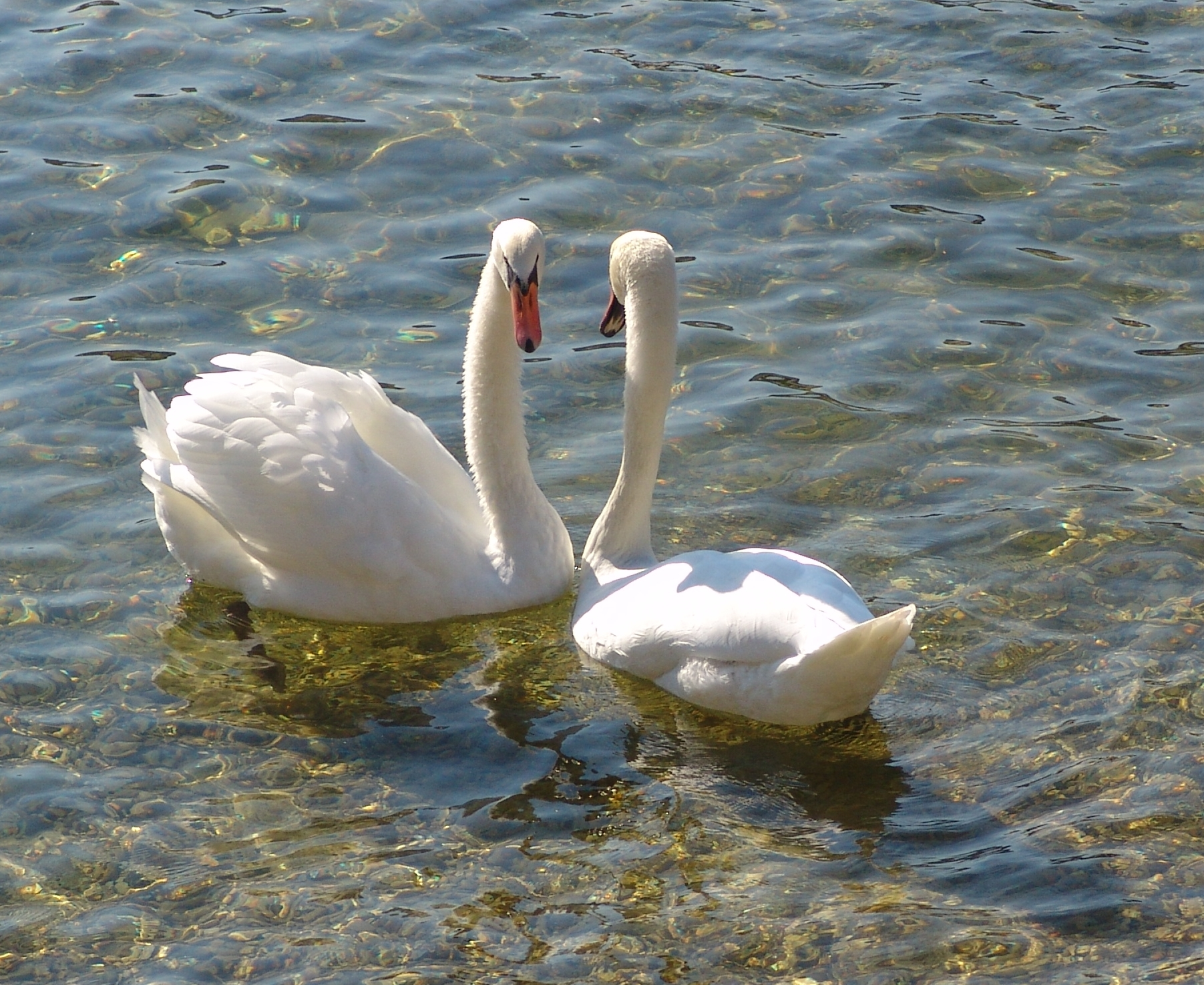 Two Mute swans.